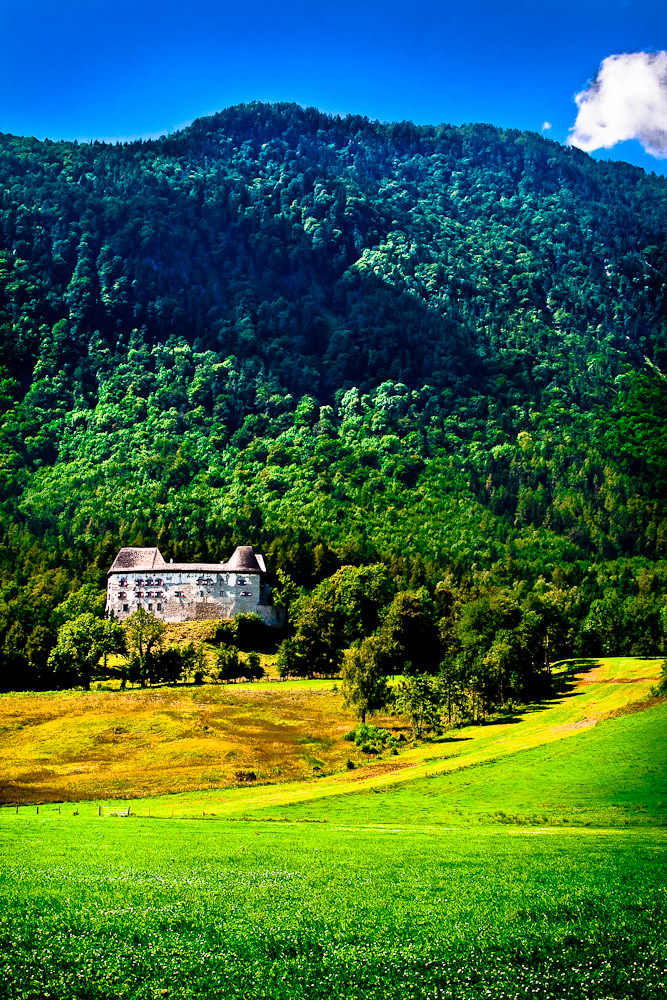 Schloss Staufeneck at Mount Hochstaufen as seen from the B20 (Bundesstraße 20) in Piding, Bavaria, Germany.